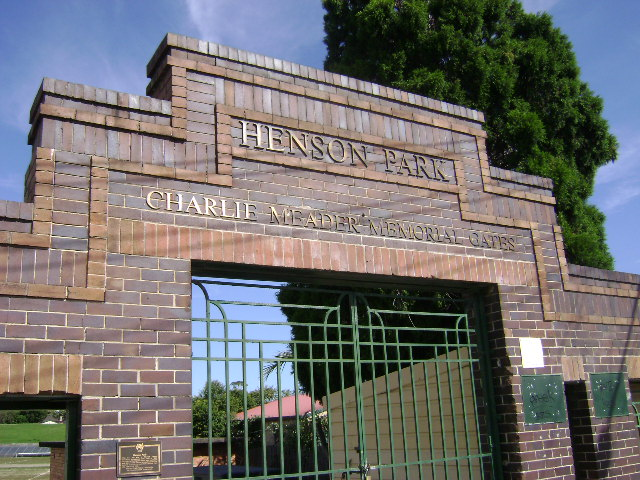 Henson park, Gate